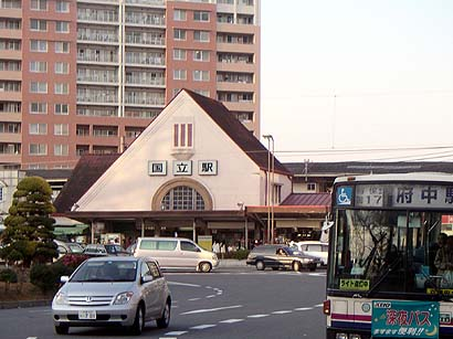 South Exit of Kunitachi Station of JR, Kunitachi-shi, Tokyo, Japan. Photo by Qqqqq.